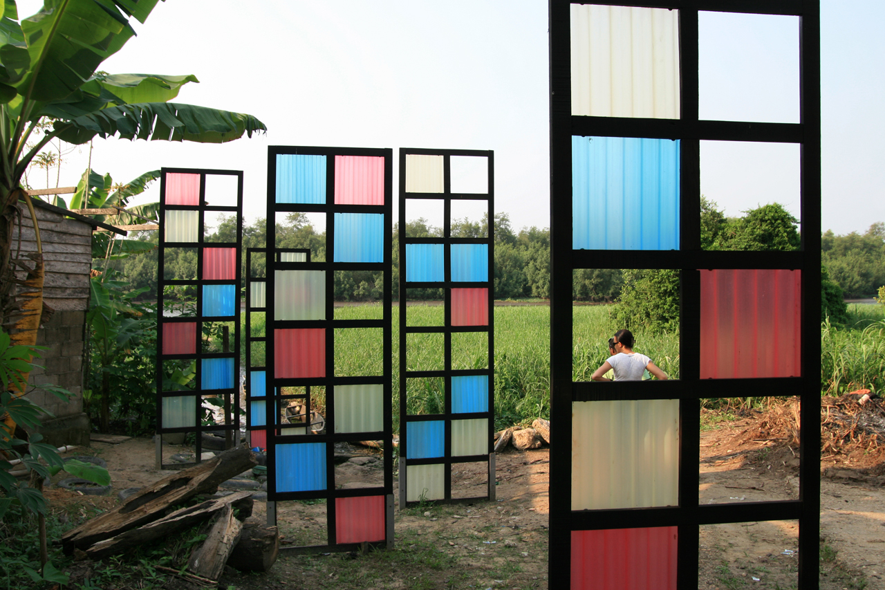 SUD Salon Urbain de Douala 2010. Triennial festival promoted by doual'art. Photo by Sandrine Dole